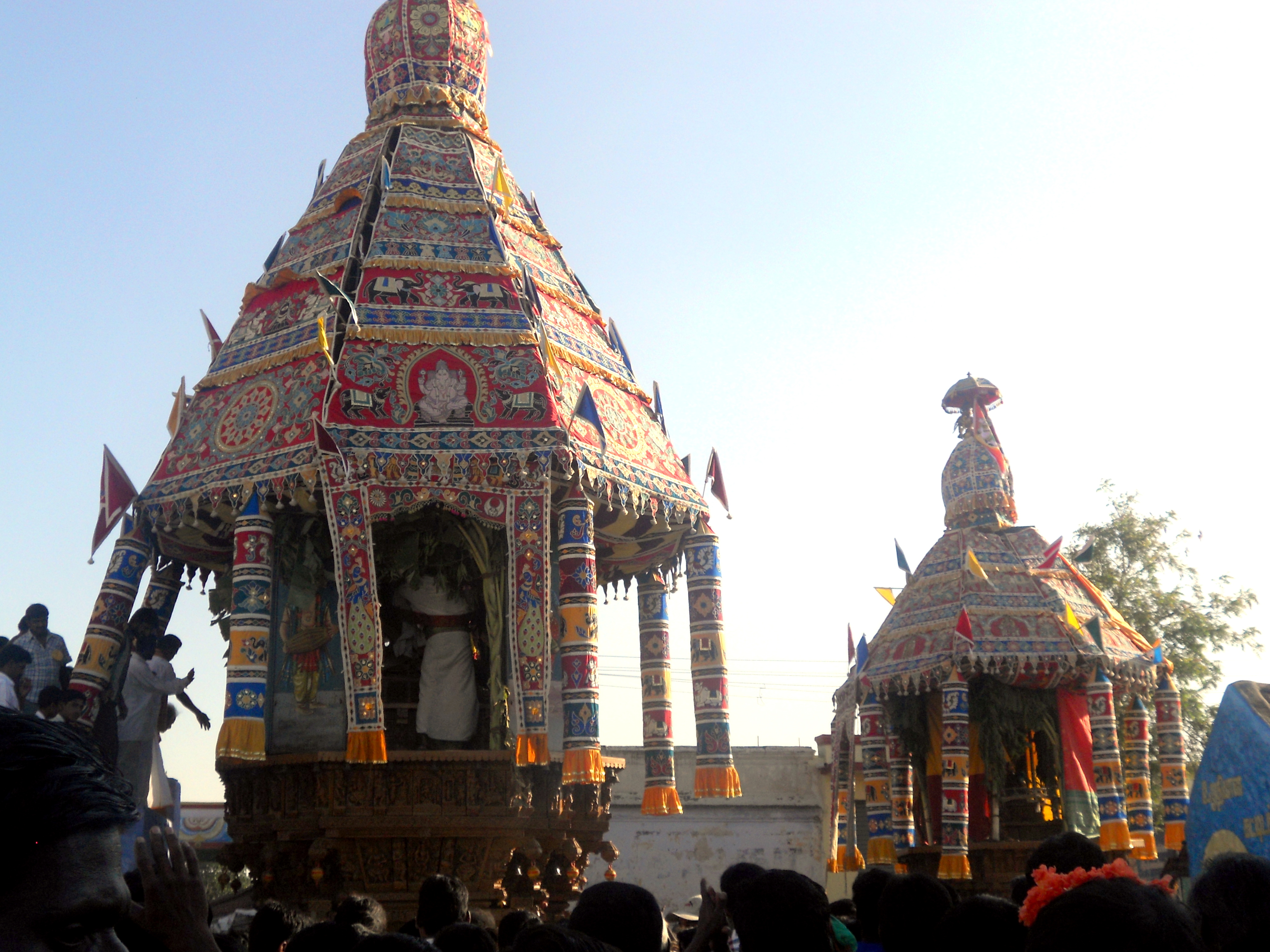 Thirumurugan Poondi car festival